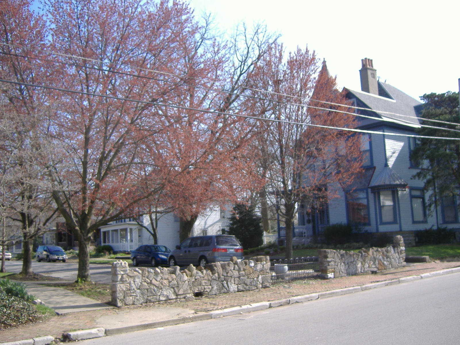 Northern entrance to Cedar Bough Place Historic District in New Albany, Indiana.